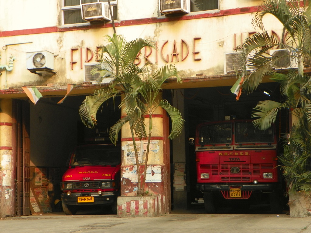 West Bengal Fire & Emergency Services